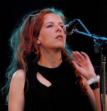 Musician Neko Case at All Points West, photographed on August 1, 2009 by Amanda Hatfield. The original picture had that stamp on it in a slightly different place, but it was explicitly marked as Creative Commons compatible. This picture here is a cropped and shrunken version of the original, with the photographer's mark kept in to show respect (although it was moved).